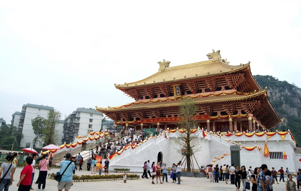 柳州市孔庙 --- Temple of Confucius in Liuzhou, Guangxi.